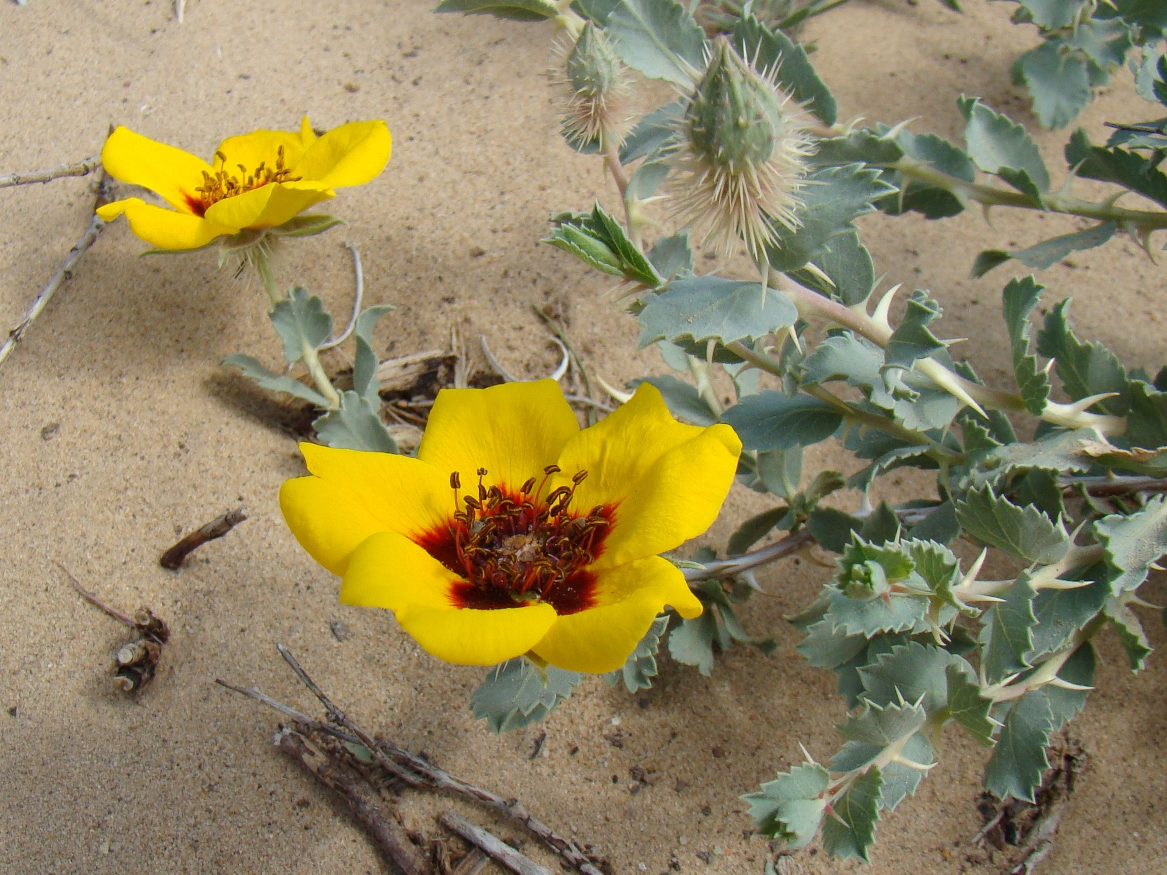 Hulthemia Persica (Rosa persica). Baikonur, Kazakhstan.